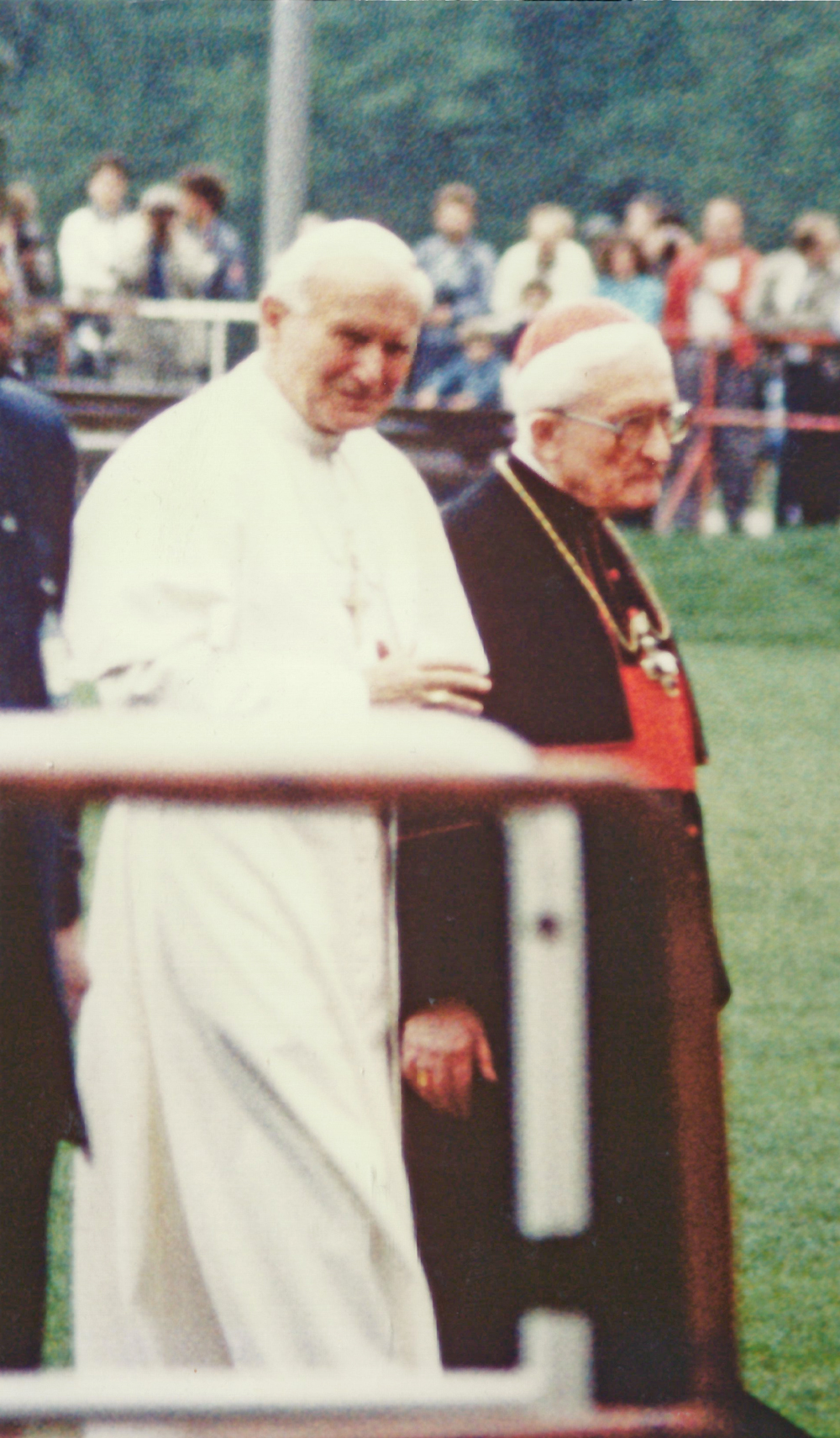 Pope John Paul II in Cologne, during his visit of Germany in May 1987. Holy Mass in Müngersdorf Stadion (today: RheinEnergie Stadion). Right: Joseph Kardinal Höffner, Archbishop of Cologne